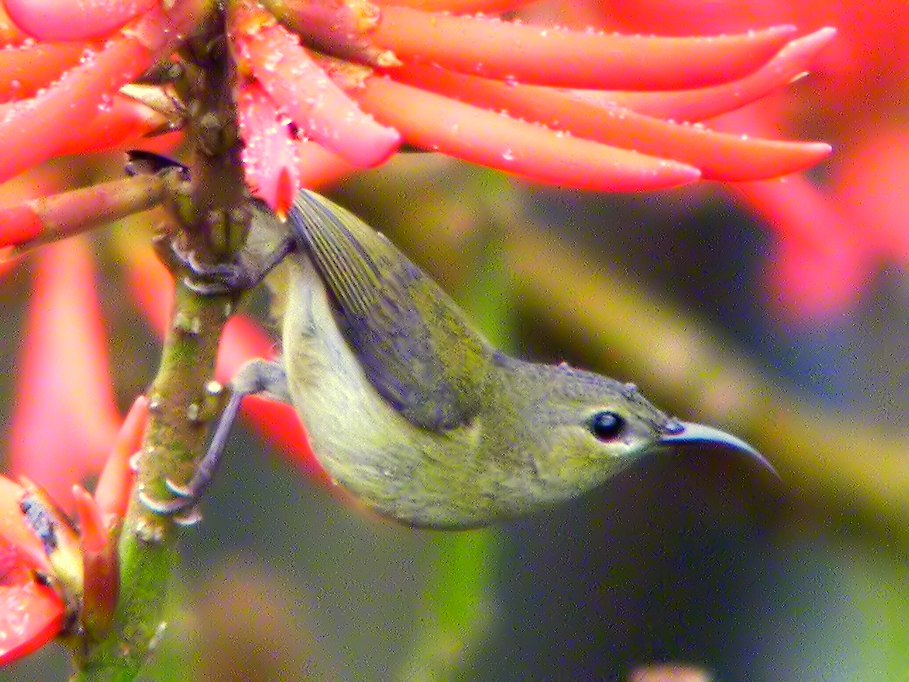 Fork-tailed Sunbird, Aethopyga christinae - female Original description: Saw at hillside. Got a video as well.